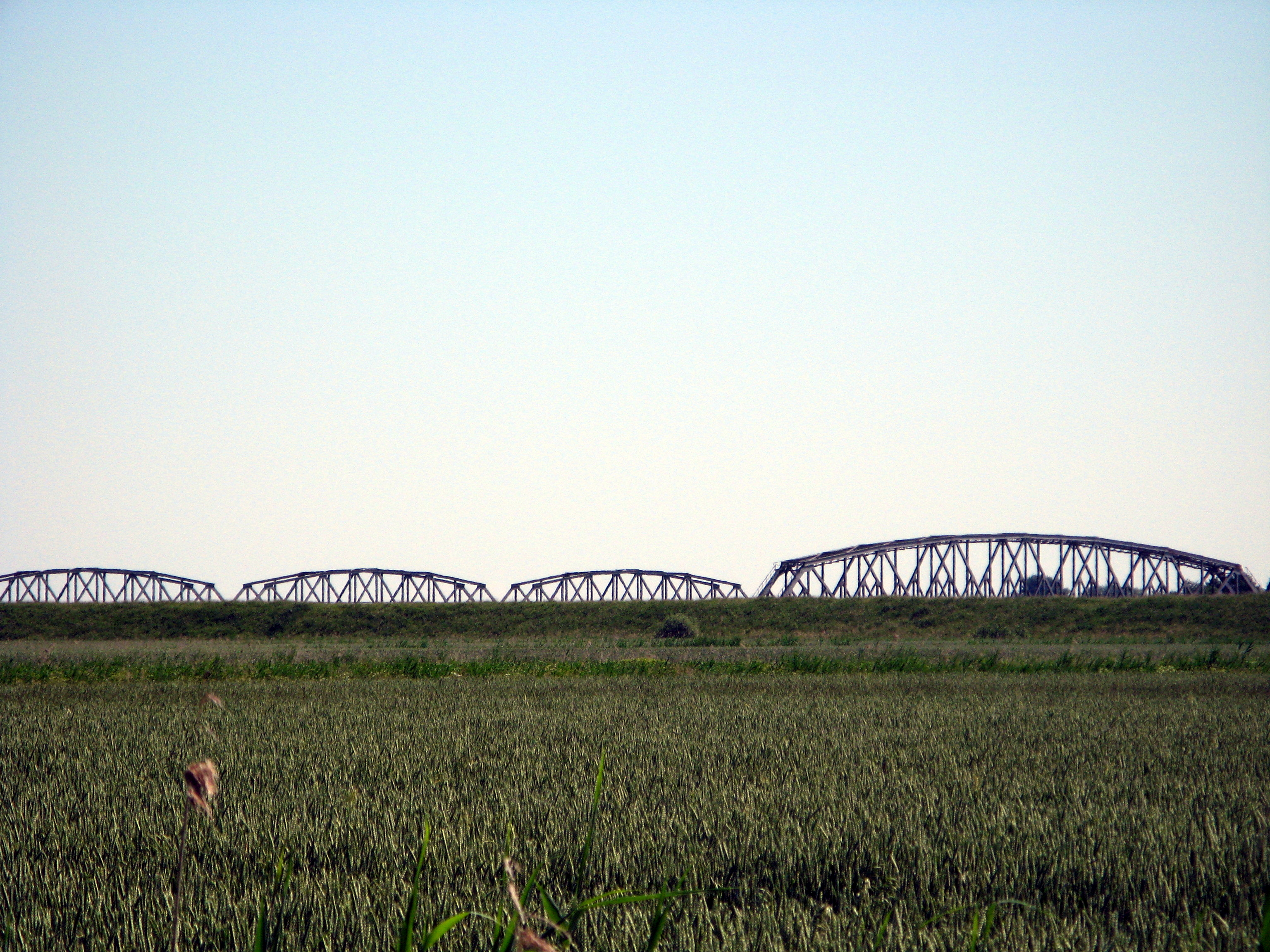 Railway bridge over the Eider River